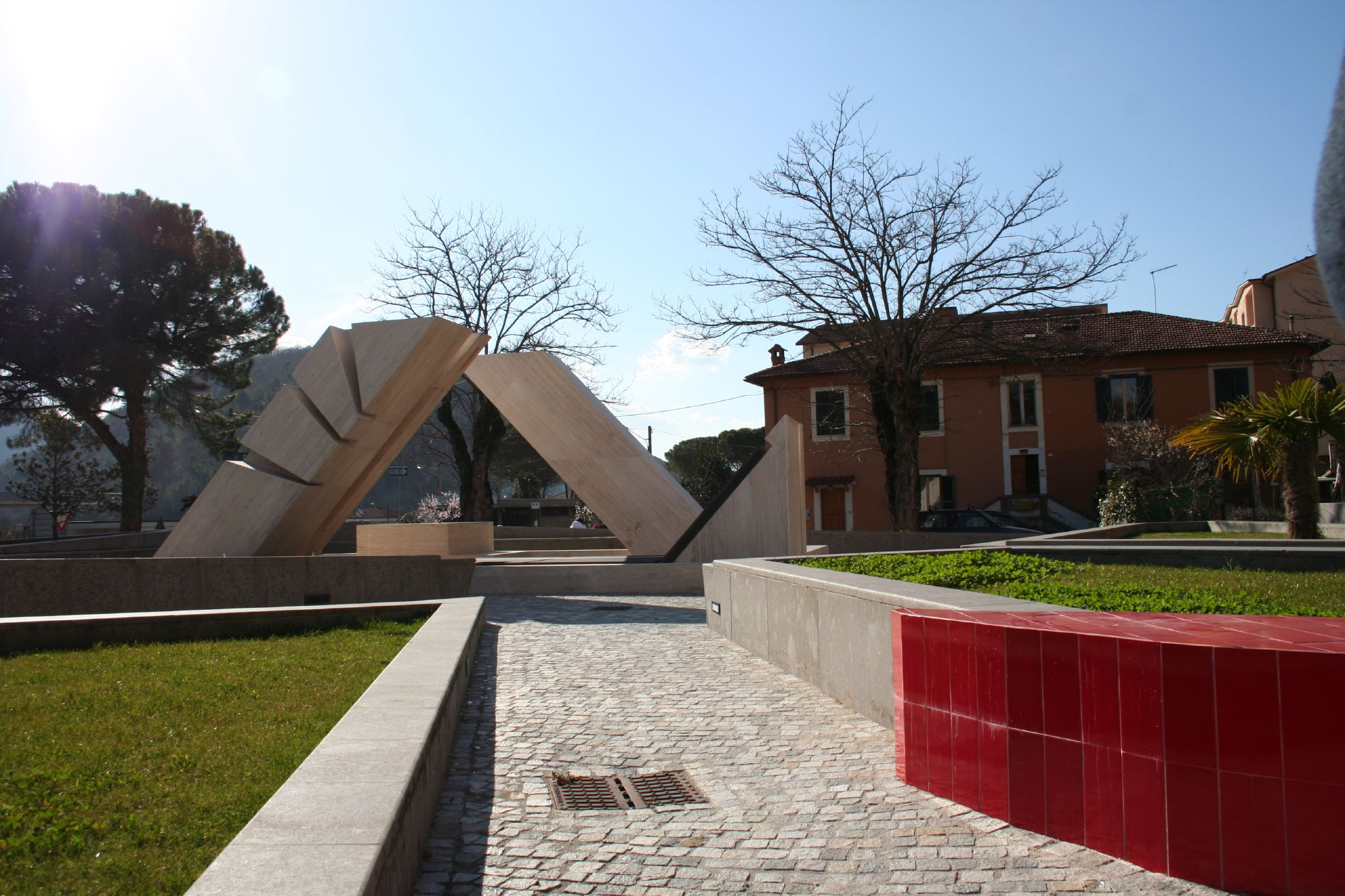 Villa Reatina neighbourhood, Rieti (Lazio, Italy)